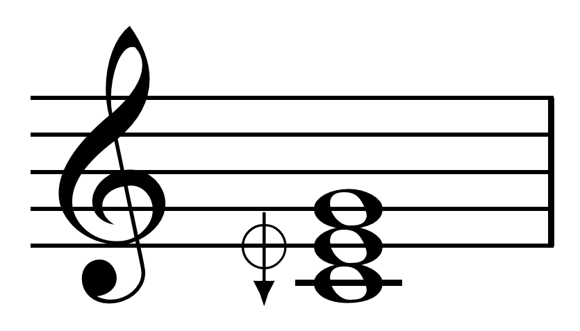 Major chord on C in 17 equal temperament (0,5,9).